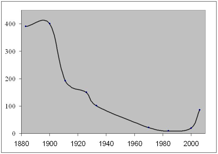 Beltana population graph - created by me ( badly ) from variously sourced information. Peripitus (Talk) 12:57, 11 September 2006 (UTC) Originally uploaded to wikipedia then re-uploaded here